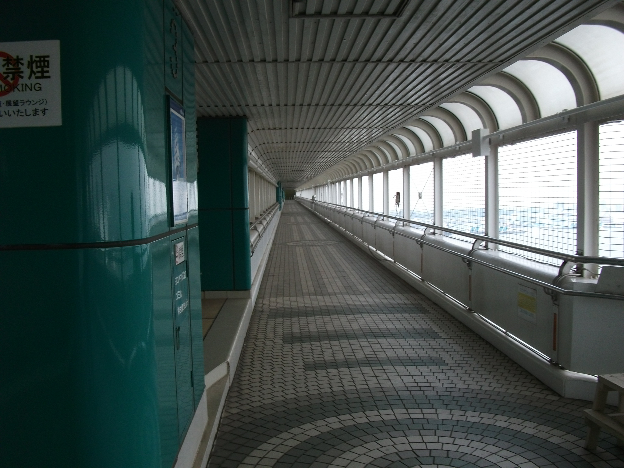 Yokohama Skywalk (Yokohama, Japan)